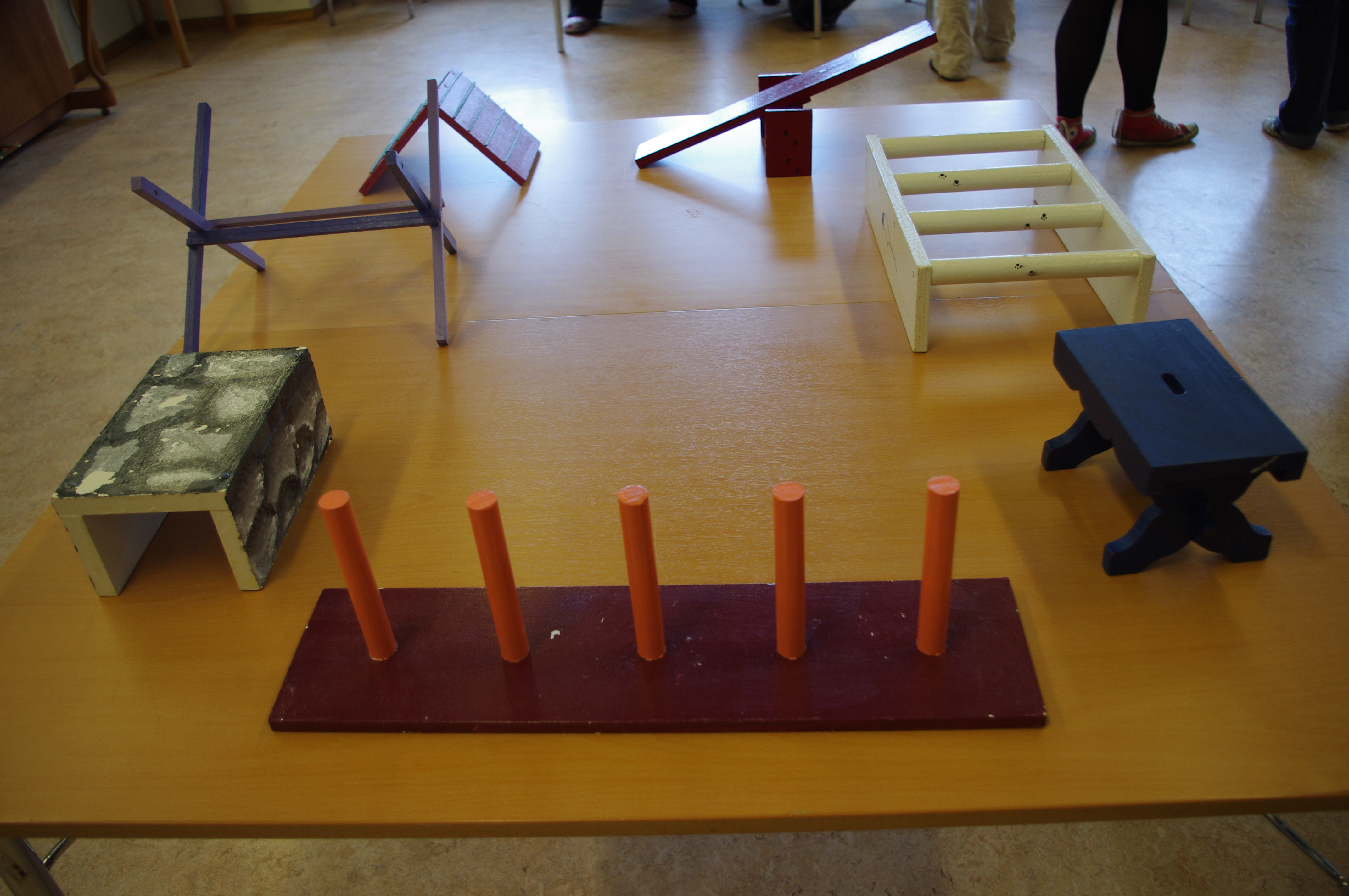 Track for rat agility. It is basicly scaled down versions of the ones used for dog agility.